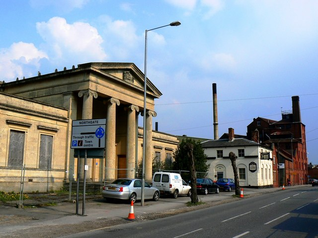 A view across Northgate Street, Devizes From left, the former Devizes Assizes court, the 'White Lion' licensee training pub and the back of Wadworth's Brewery.